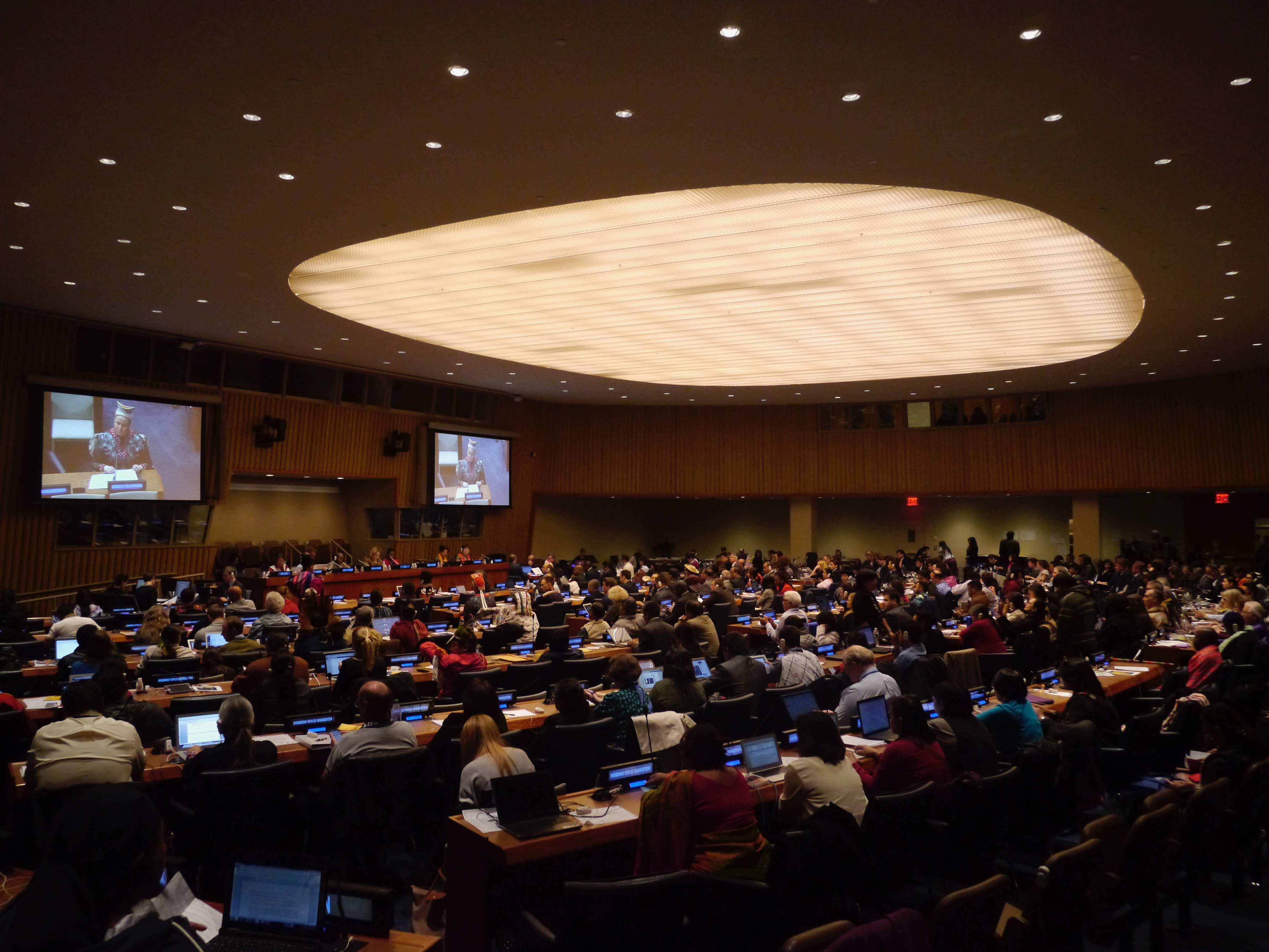 Plenary meeting of the UN Permanent Forum on Indigenous Issues, held at United Nations Headquarters in New York.